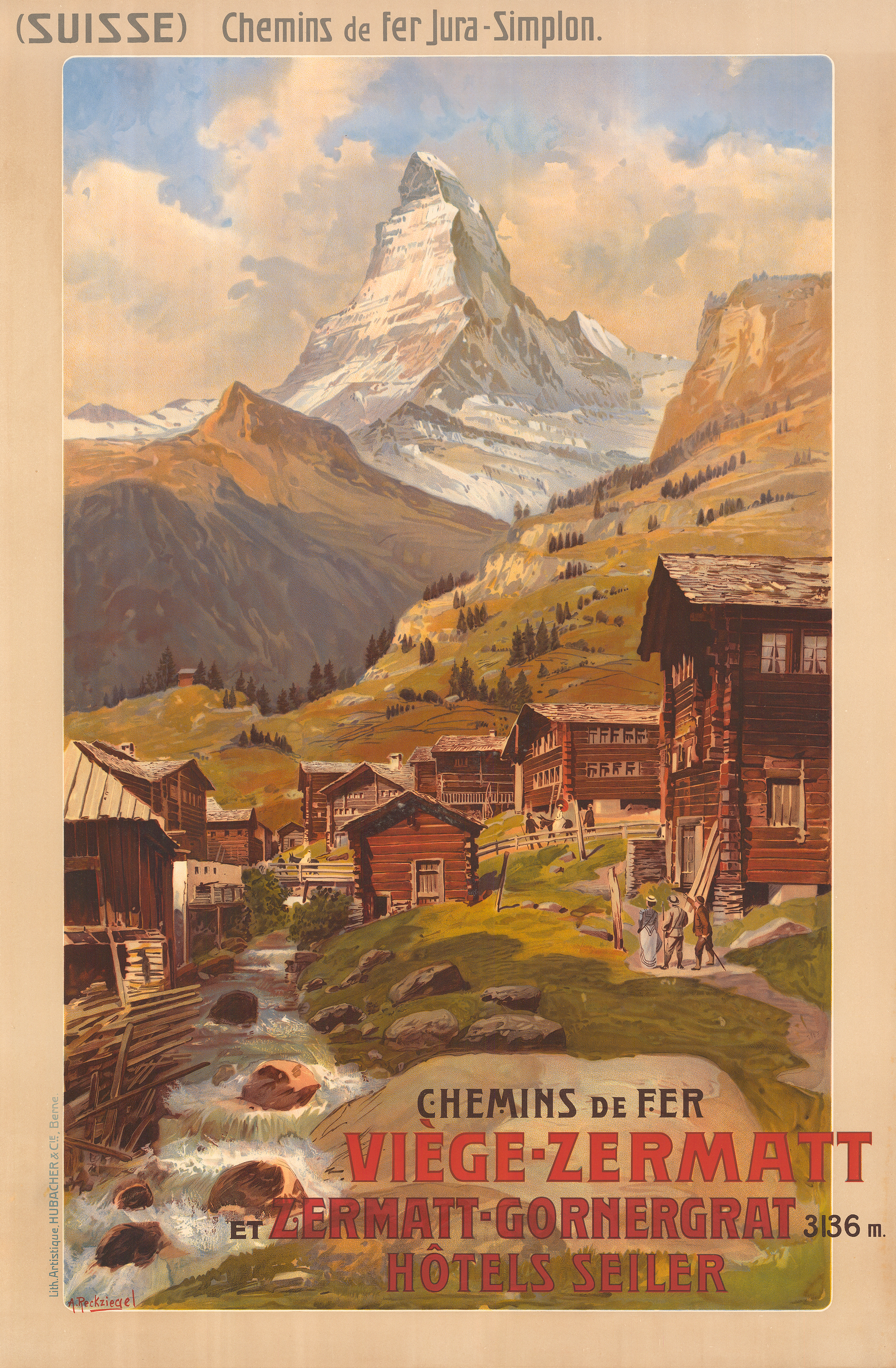 Poster advertising the then new Gornergratbahn (train) above Zermatt in 1898, and tourism in Zermatt in general.